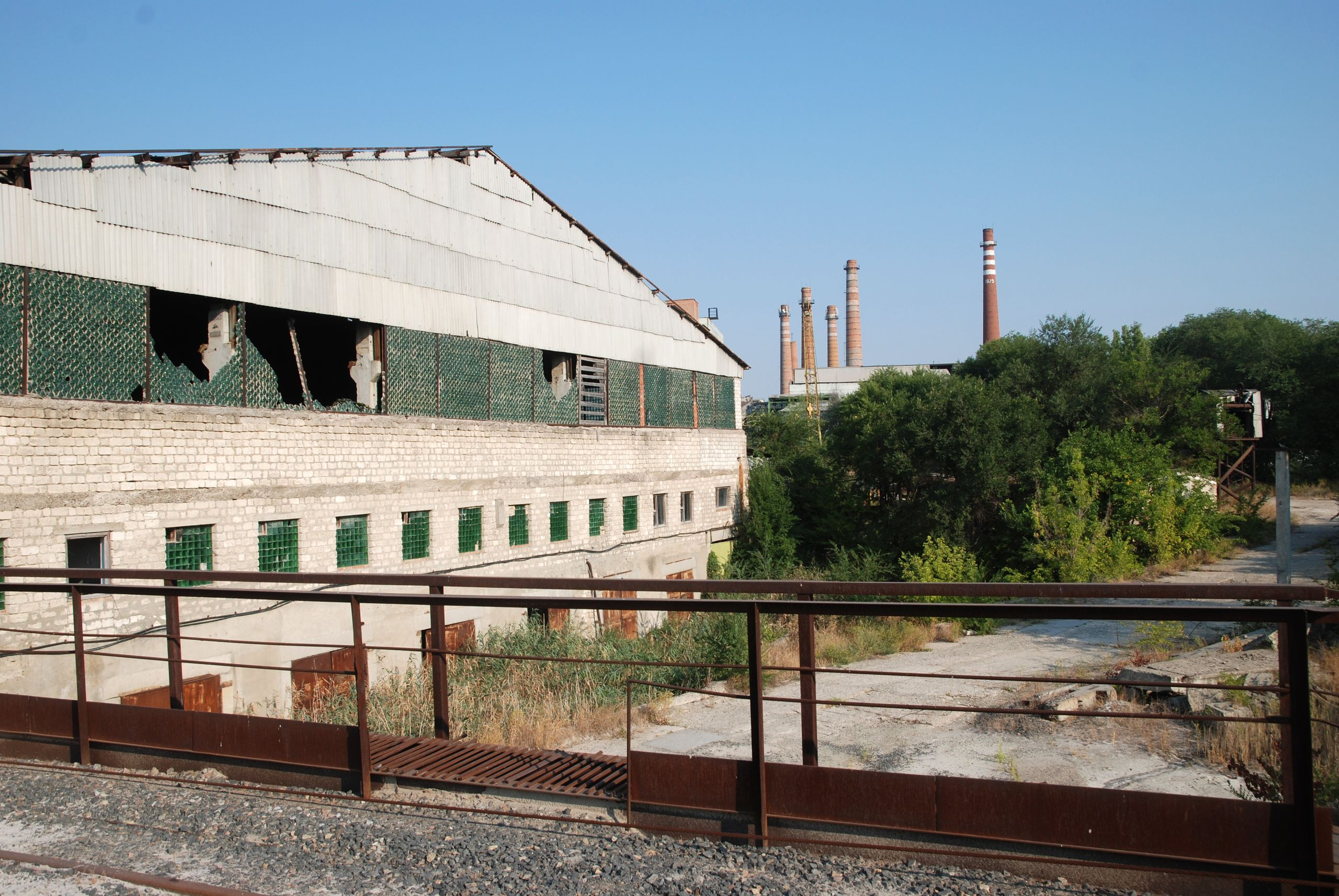 Florești, Cristal Flor